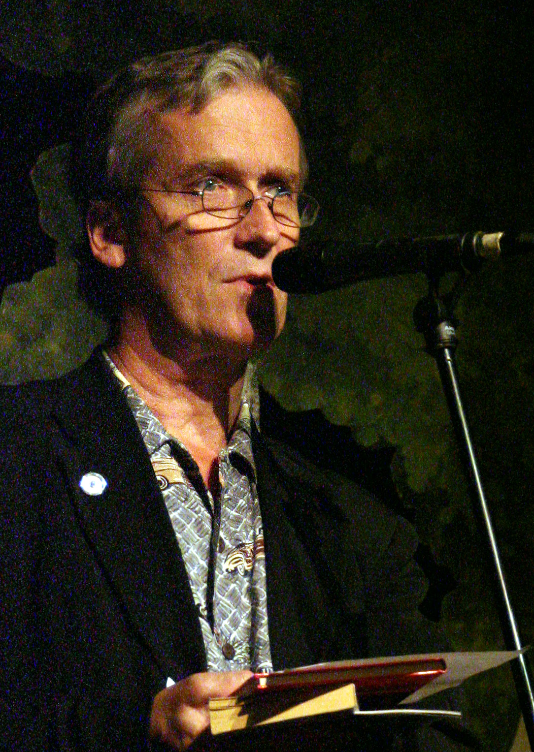 writer Ragnar Hovland at Bjørnsonfestivalen 2006 in Molde, Norway